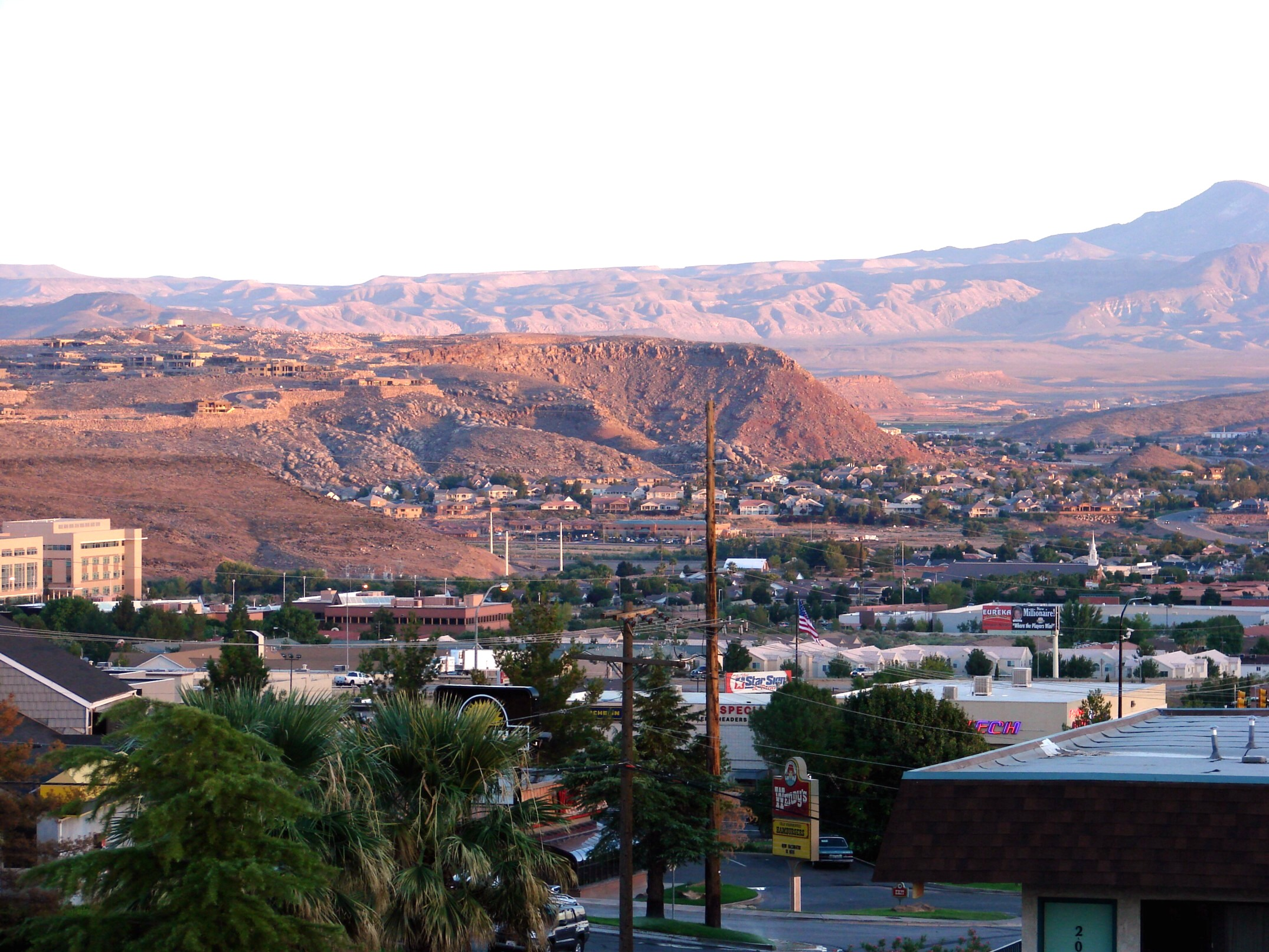 (1 of a 15-picture set) Pardon the telephone poles in the picture. I took this from the balcony of our motel on the north end of St. George, late in the afternoon as the sun was just setting. Though no award winner, I think it captures the beautiful setting of the city.